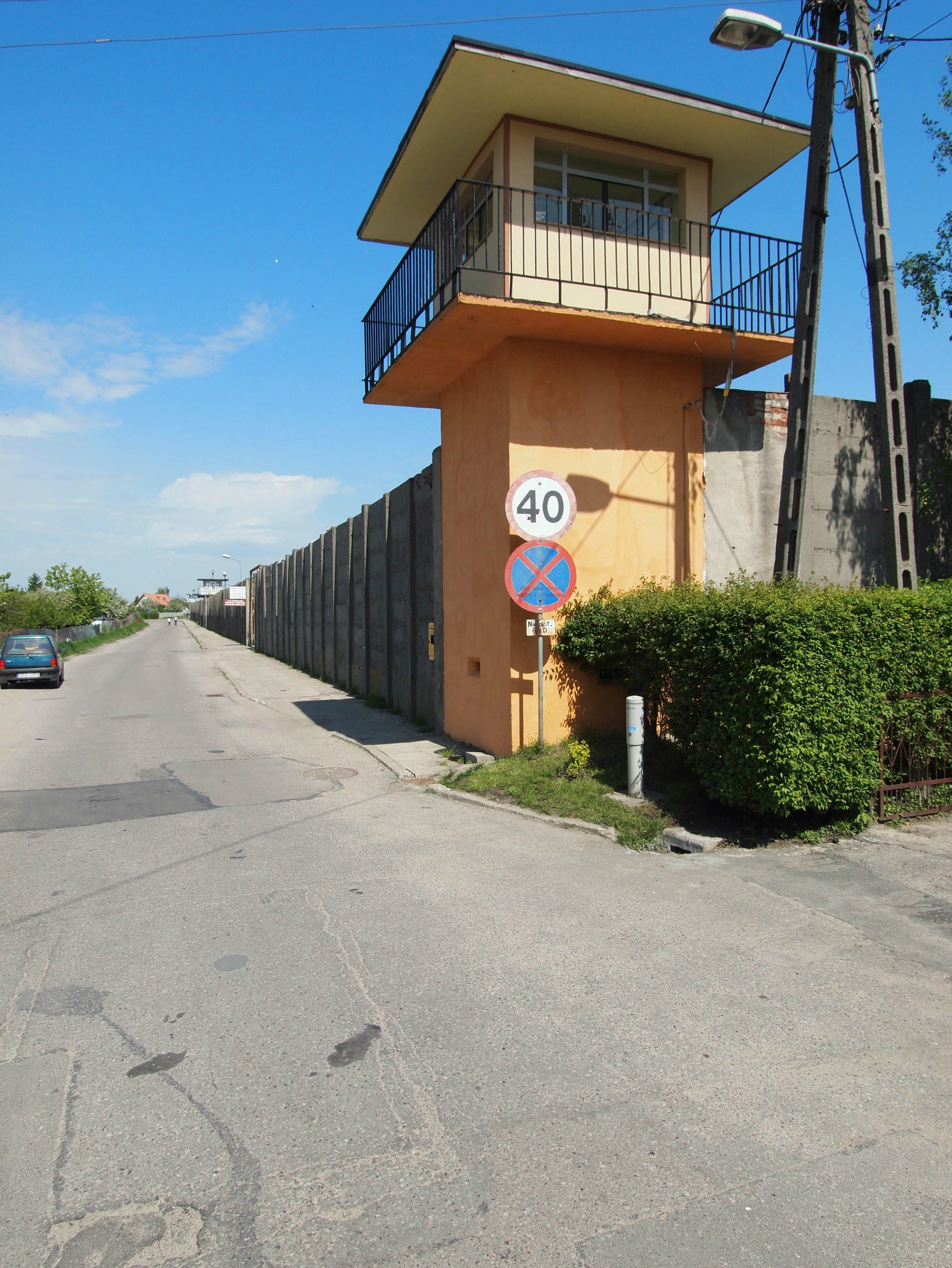 The prison in Sztum (Poland).